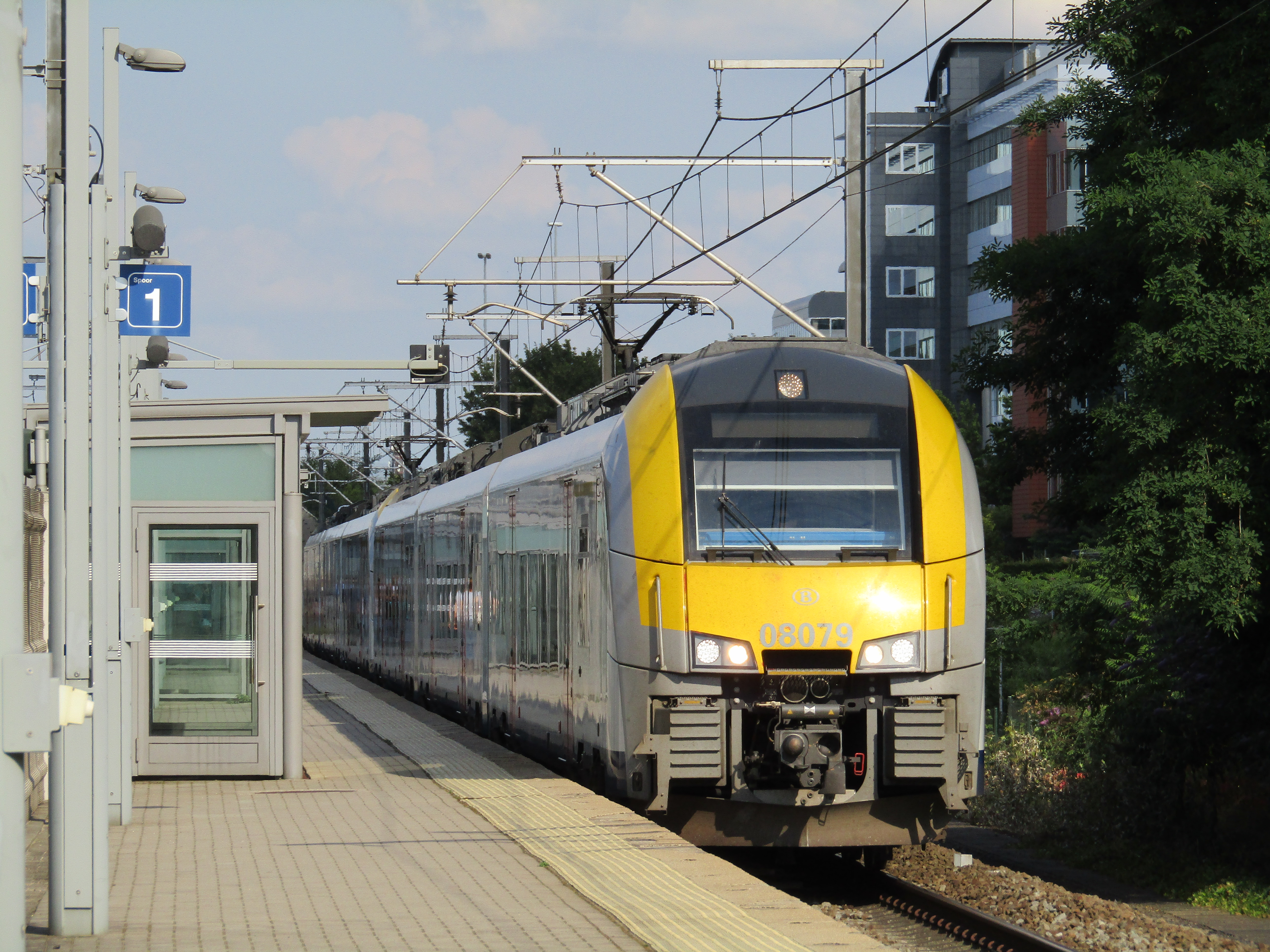 A Siemens Desiro Mainline on the Brussels S-train line S2 at Diegem station.